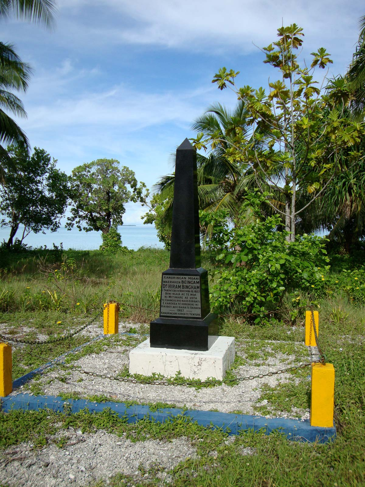 Remembrance stone in Koinawa, Abaiang, for the arrival of Christianity by Hiram Bingham (II) in Kiribati.